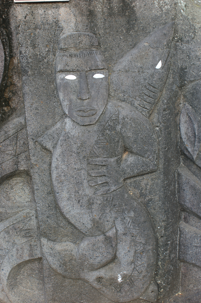 Stone carving of a mythological shark-man in Rarotonga, Cook Islands.